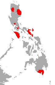 Small Rufous Horseshoe Bat (Rhinolophus subrufus) range